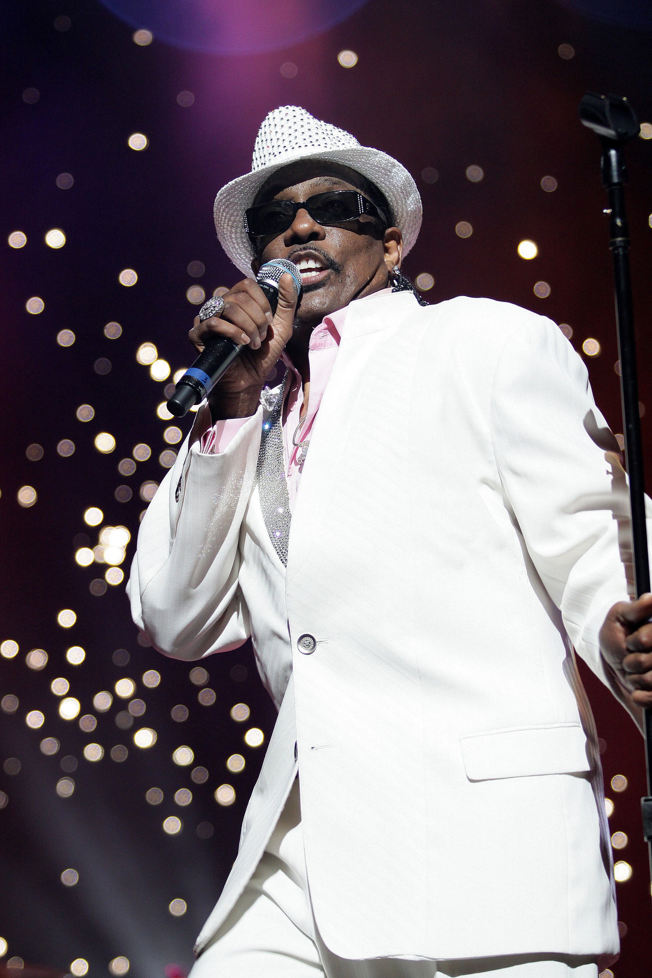 Charlie Wilson at the Arie Crown Theater in Chicago. (photo by Raymond Boyd)